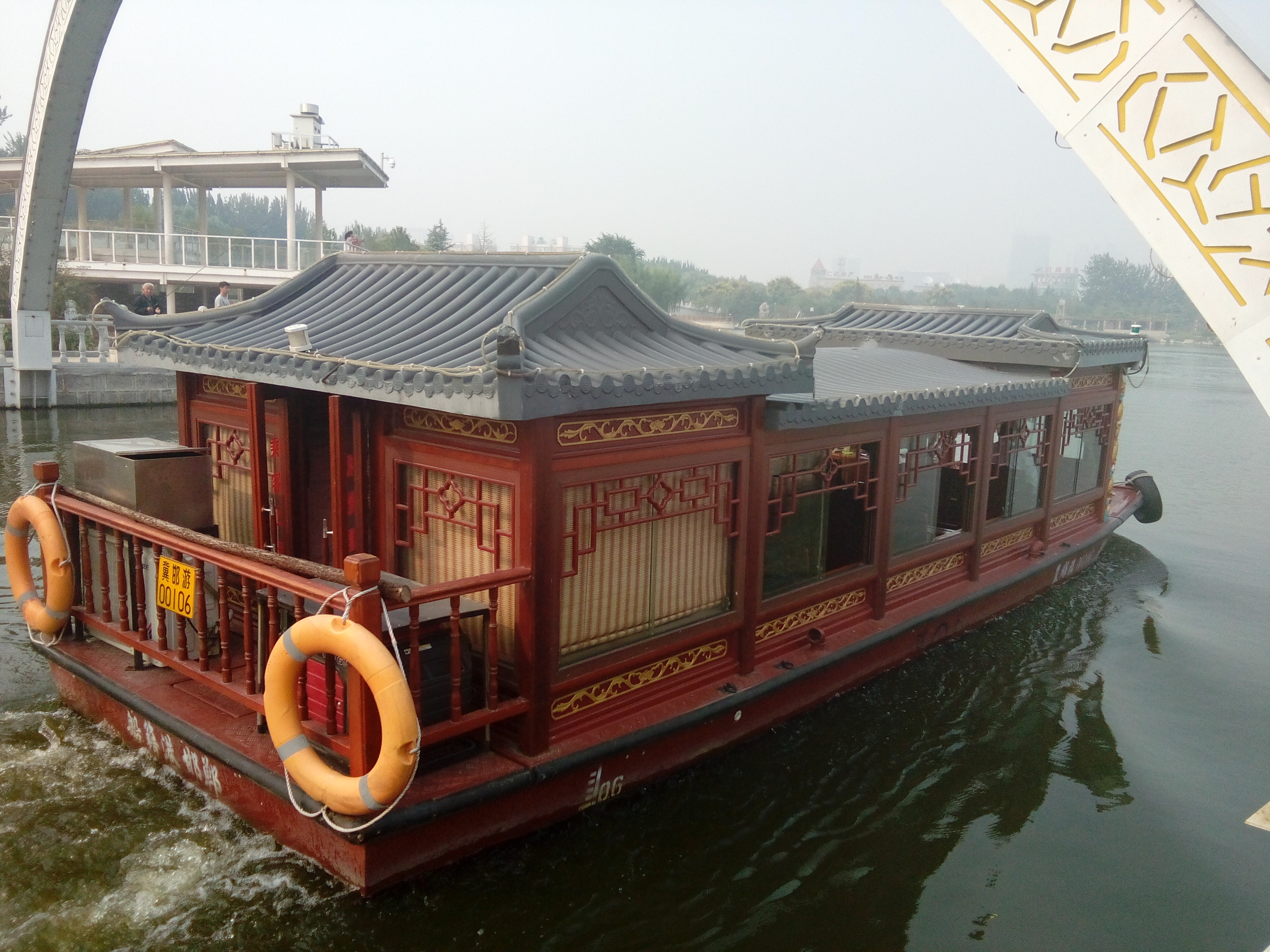 Cruise ship in Longhu Park.